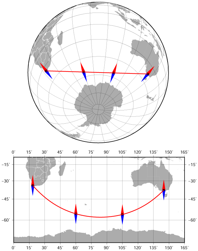 The bearing and azimuth between Cape Town and Melbourne along the geodesic (the shortest route) change from 141° to 42°. Azimuthal orthographic projection (the upper map) and Miller cylindrical projection (the lower map). The map was created using the Generic Mapping Tools, GMT, version 5.1.1.